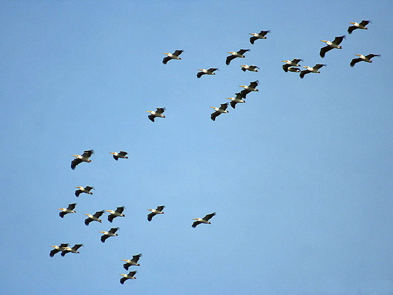 Great White Pelican Pelecanus onocrotalus at Bharatpur, Rajasthan, India.